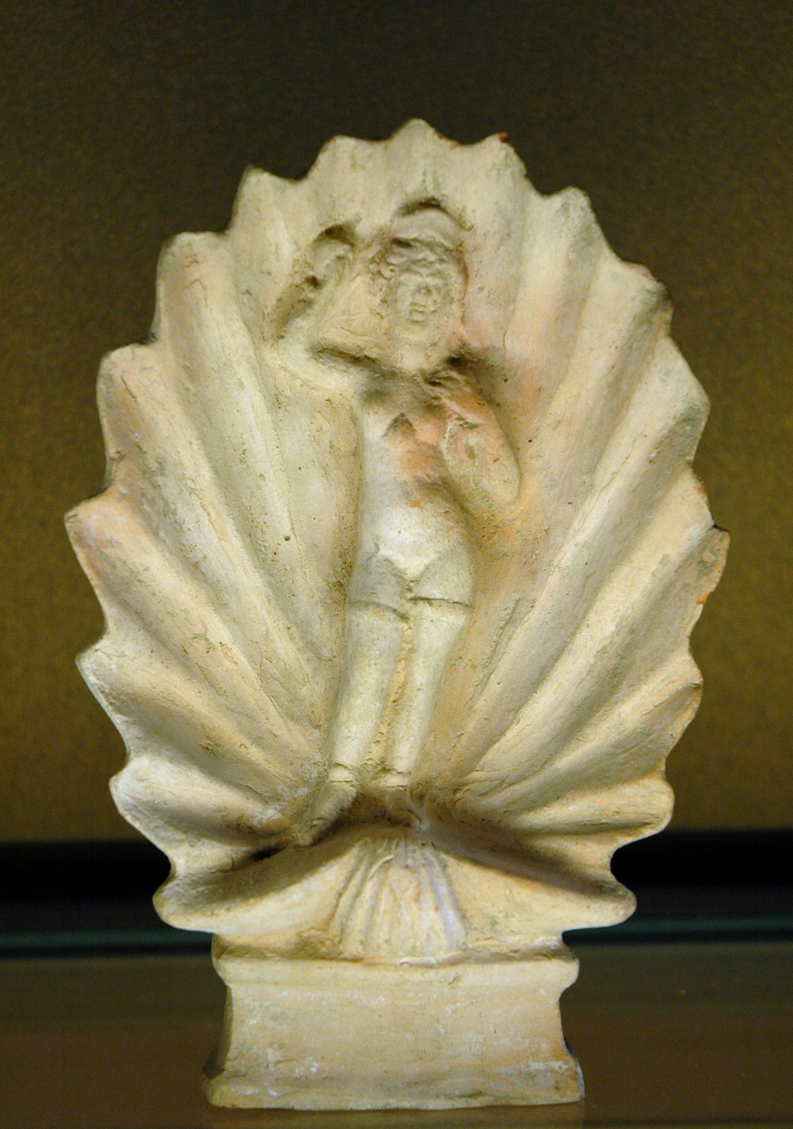 Aphrodite Anadyomene (rising from the sea) in her sea shell. Terracotta, made in Amisos (Pontus), late 1st century BC/early 1st century AD, found in Kertch (ancient Panticapaeum).